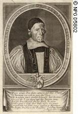 Edward Reynolds, Bishop of Norwich, 1660-1676